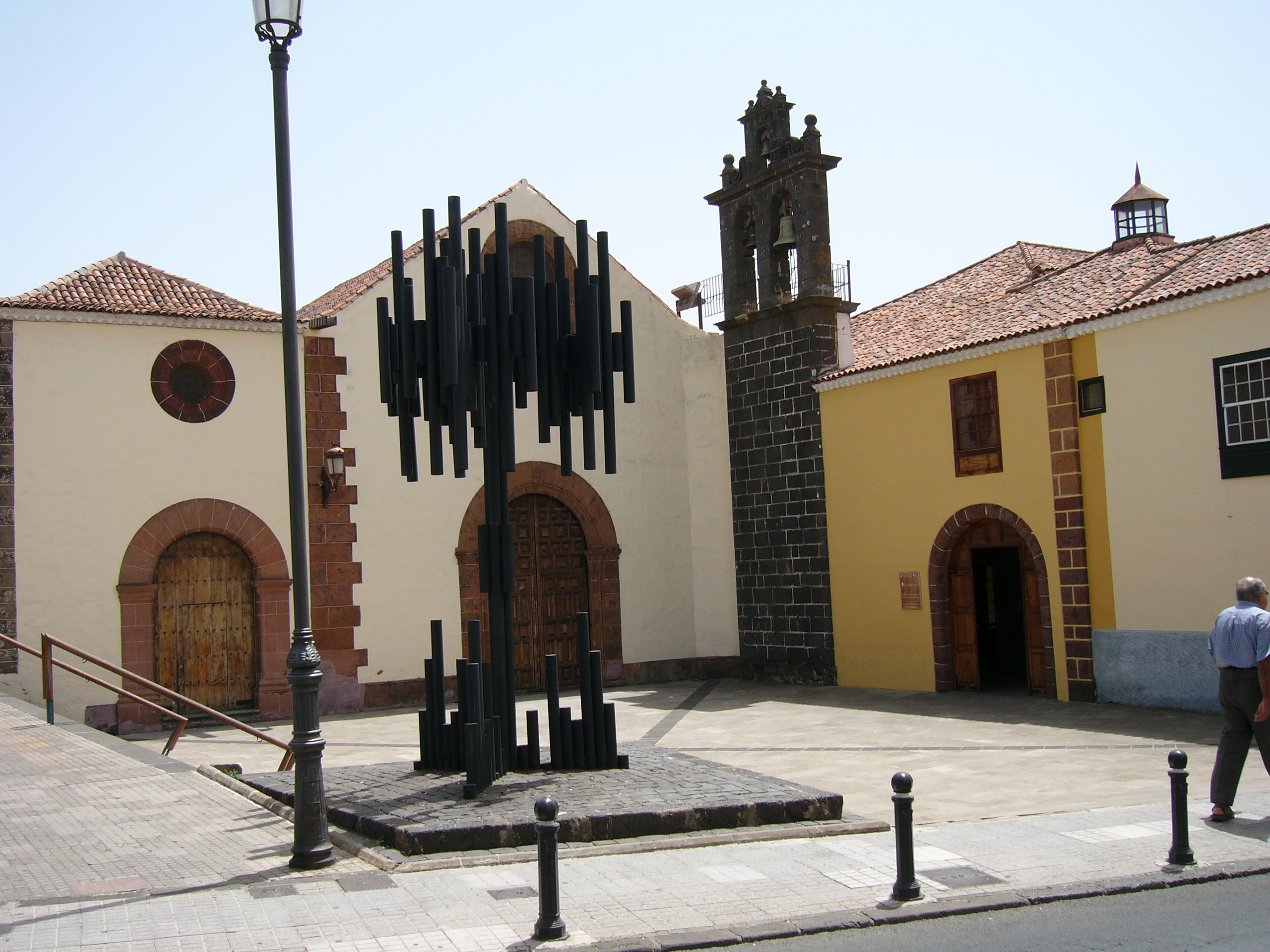 La Laguna, Tenerife, Canary Islands, Spain September 2005 Olaf A. Koch own picture